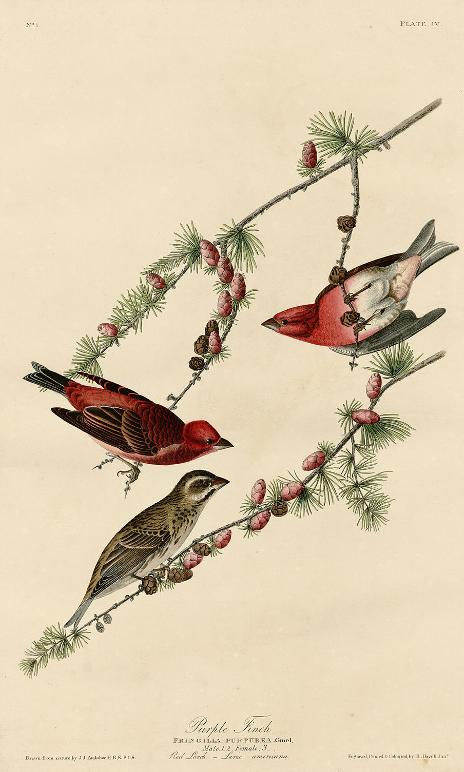 Plate 4 of Birds of America by John James Audubon depicting Purple Finch.